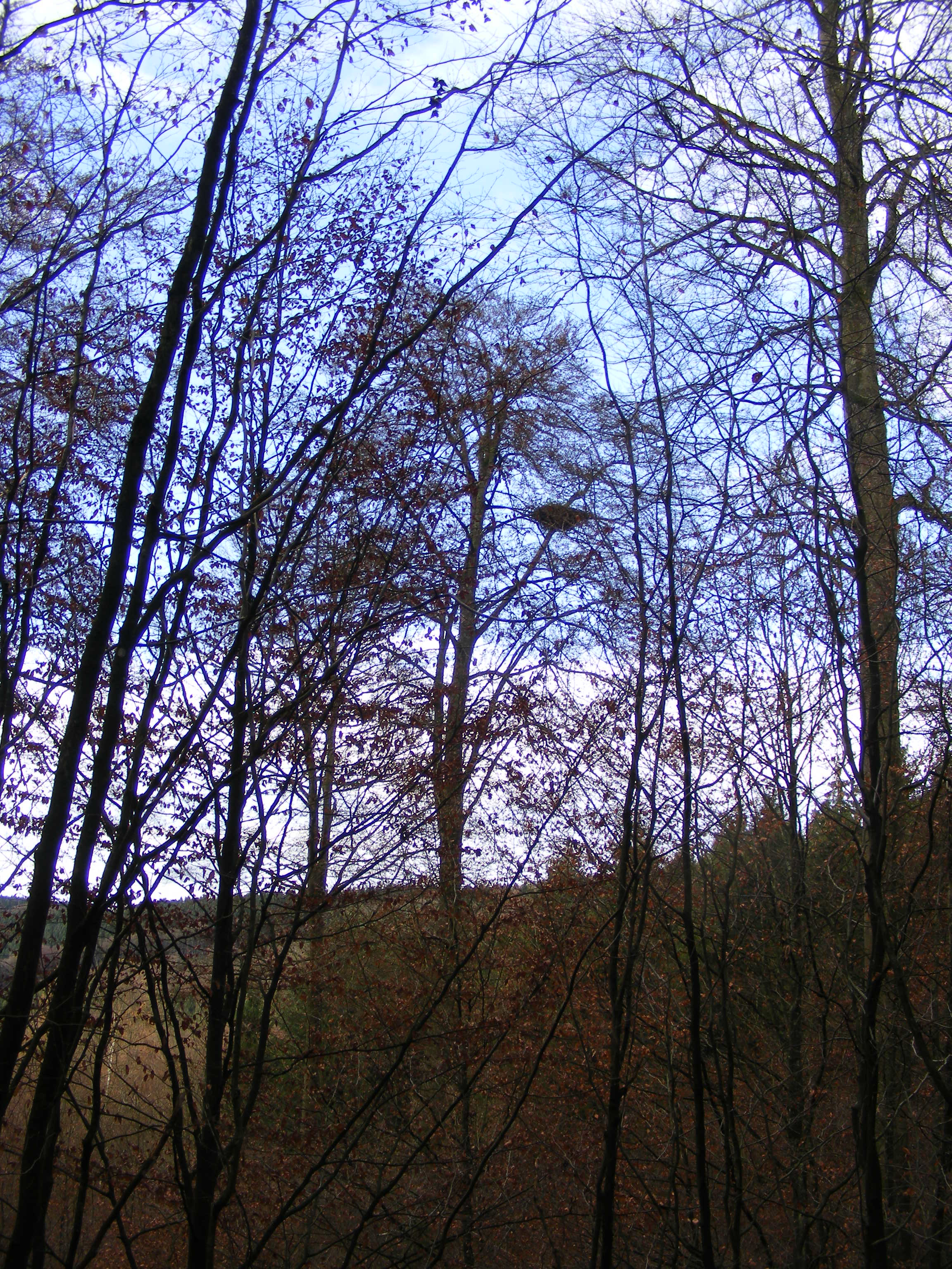 Black stork eyrie east of Schmallenberg-Heiminghausen in the landscape conservation area Schmallenberg Northwest on a copper beech. Horst tree was illegally felled in 2016. In 2019 the landowner had to pay a fine of 500 euros.